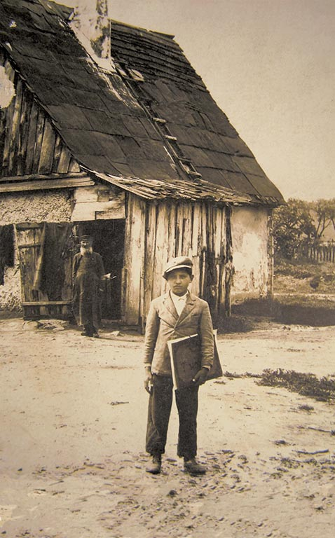 Chaim Goldberg, after being discovered the day before poses in front of the home he was born in before going to the Mehoffer Art Academy on a full scholarship, circa 1931.